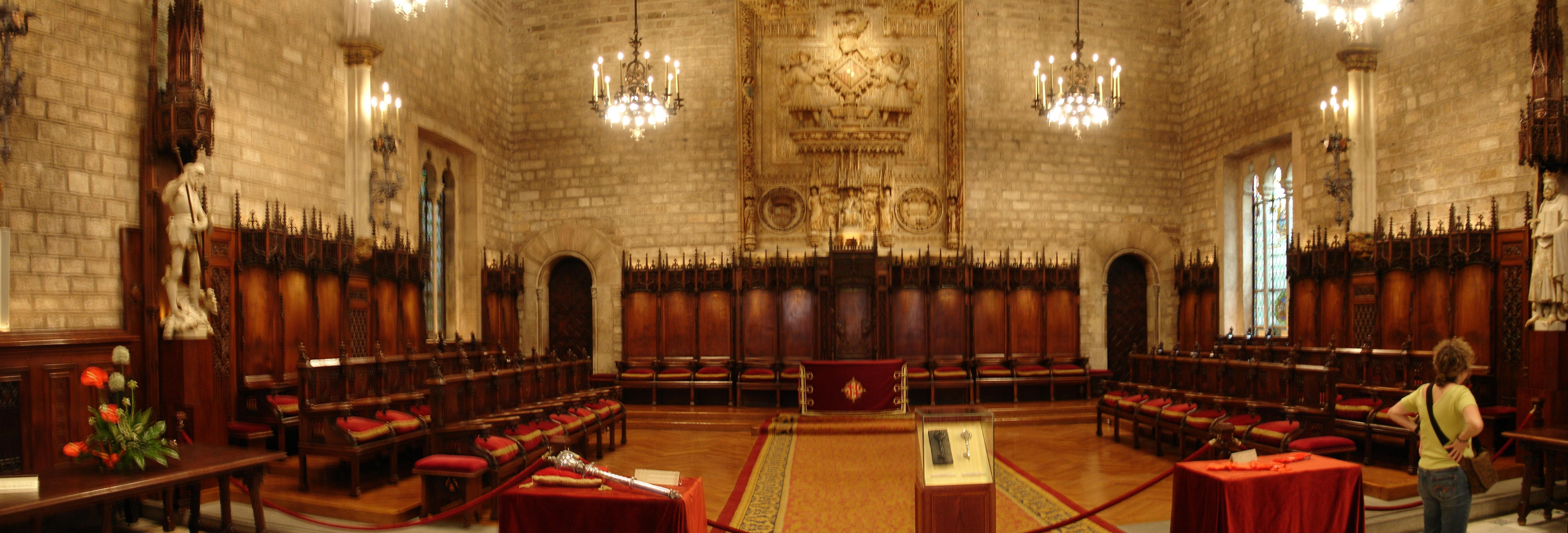 Saló de Cent panoramic view, in Barcelona, Catalonia, Spain.